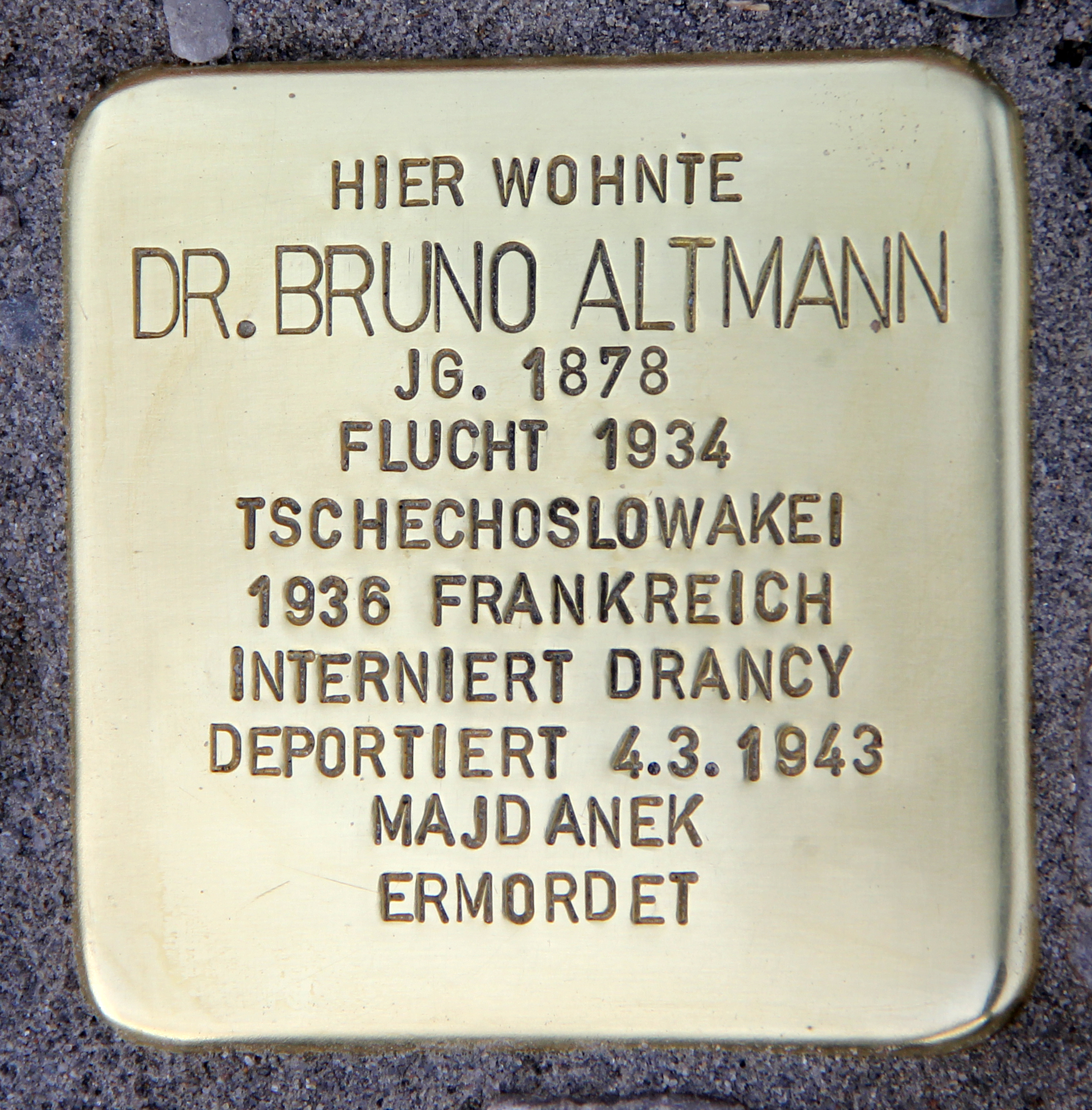 "Stolperstein" (stumbling block), Bruno Altmann, Dörchläuchtingstraße 4, Berlin-Britz, Germany